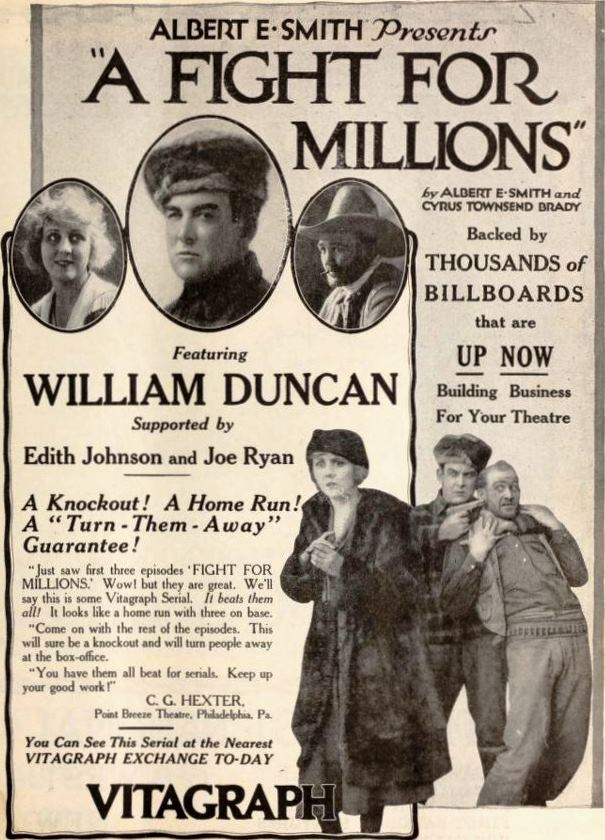 Advertisement for the American drama film serial A Fight for Millions (1918) with William Duncan, Edith Johnson, and Joe Ryan, on page 7 of the July 20, 1918 Exhibitors Herald.